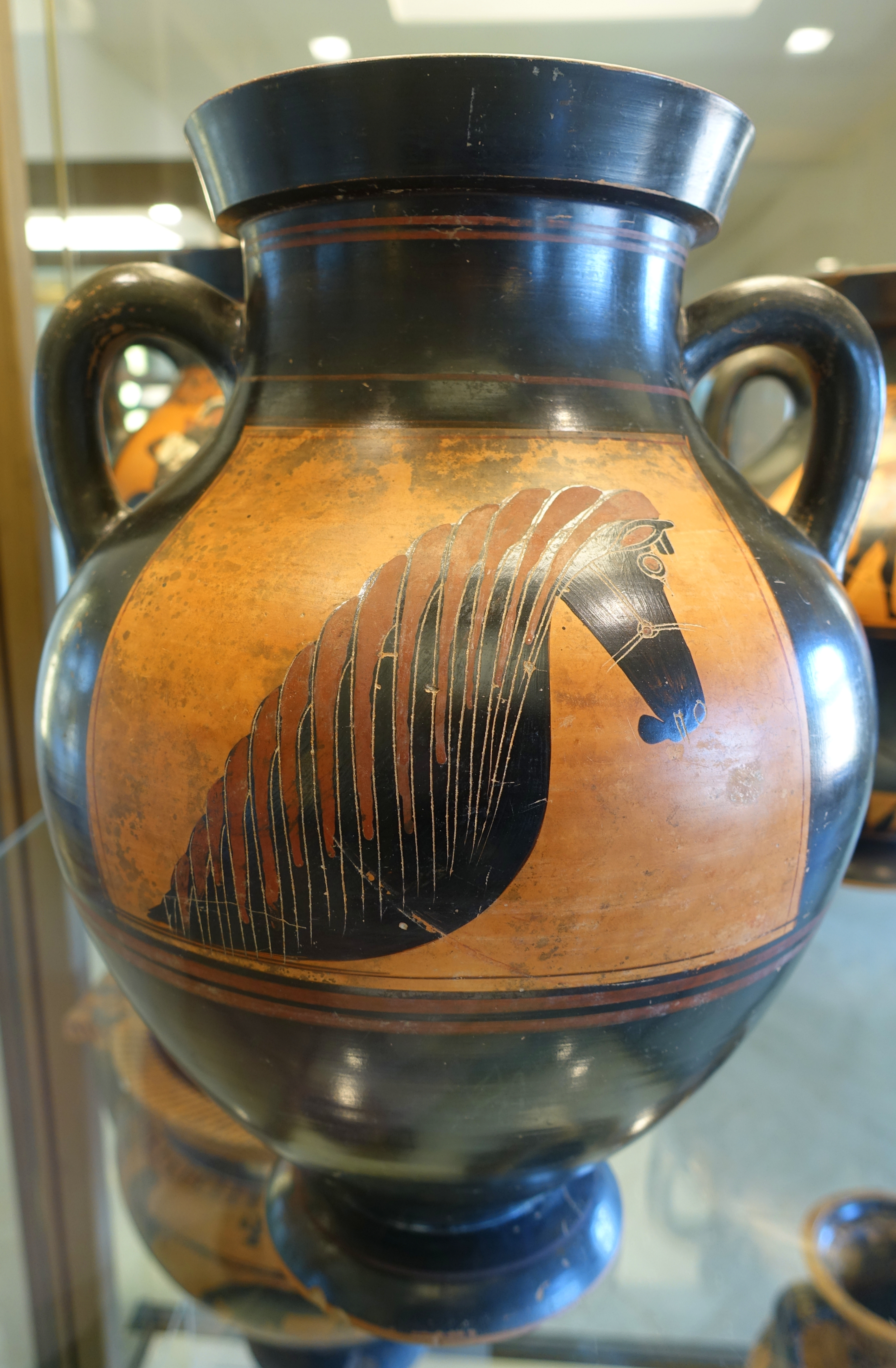 Exhibit in the Museo Gregoriano Etrusco - Vatican Museums.